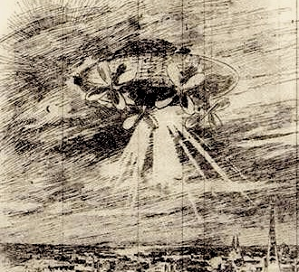 Mystery airship over Sacramento (illustration)